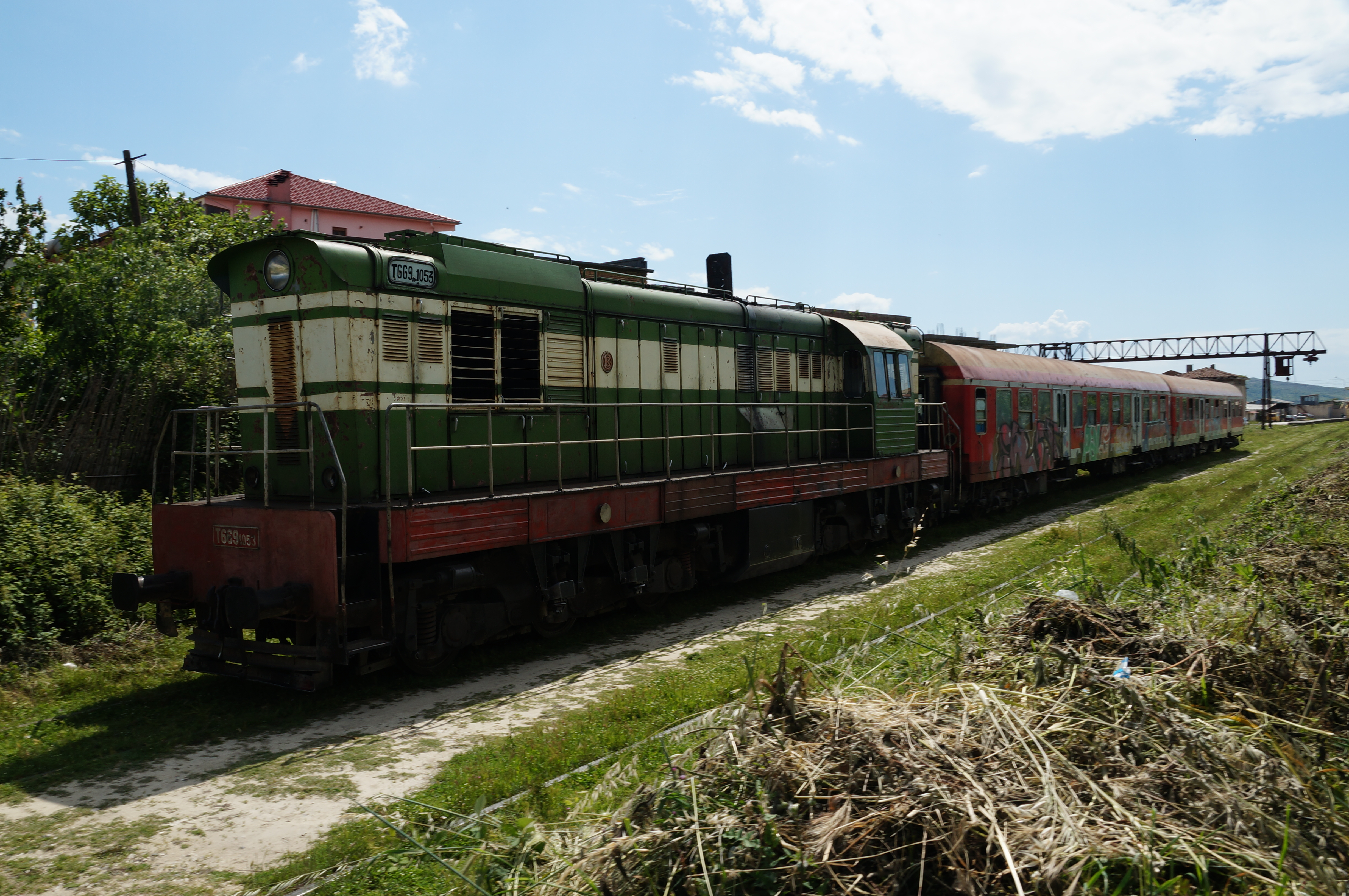 A train leaving the station of Peqin, Albania